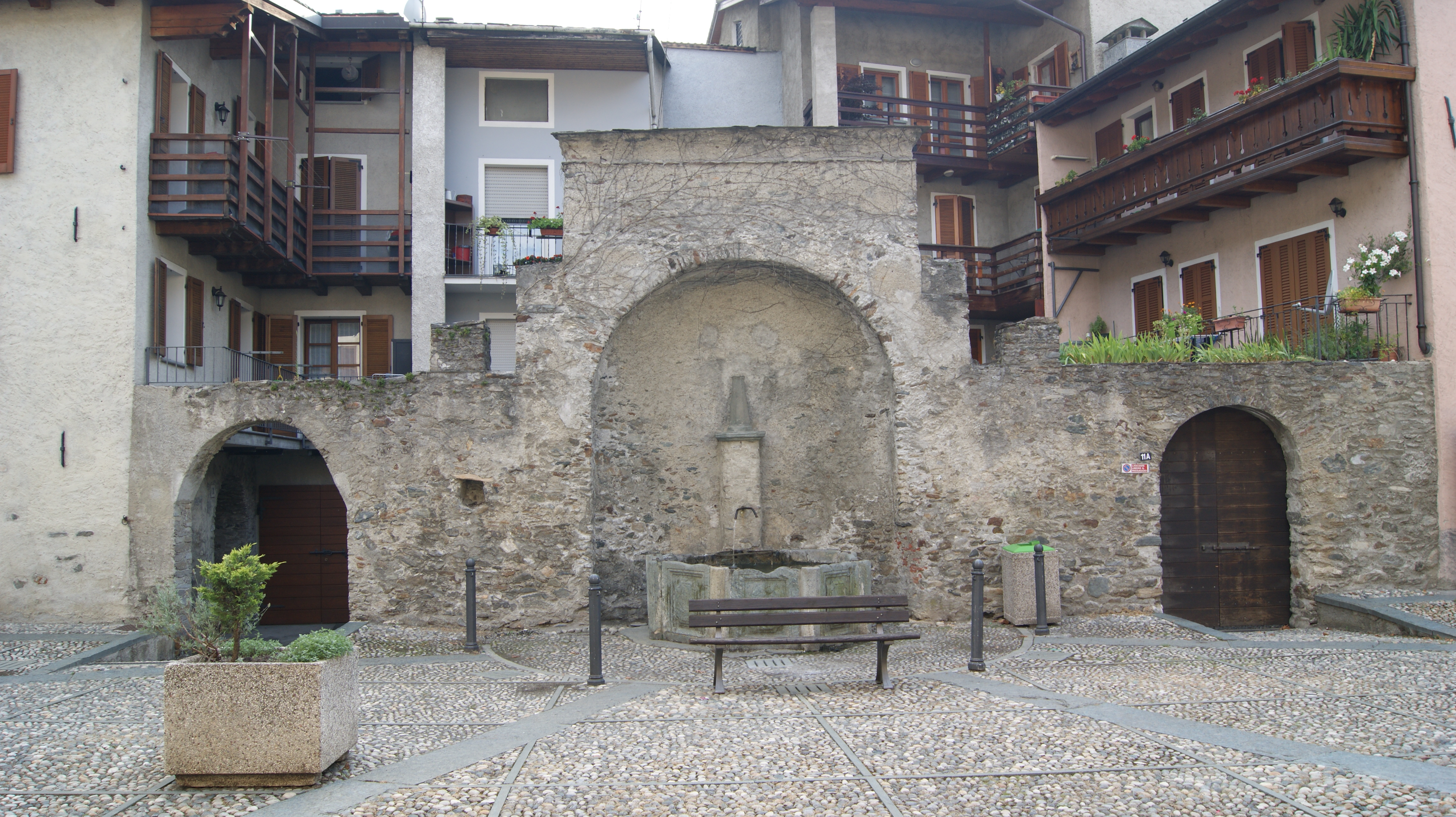 Fontain on the Via Angelo Pergola / Piazza Parravicini in Tirano (Sondrio), Italy.